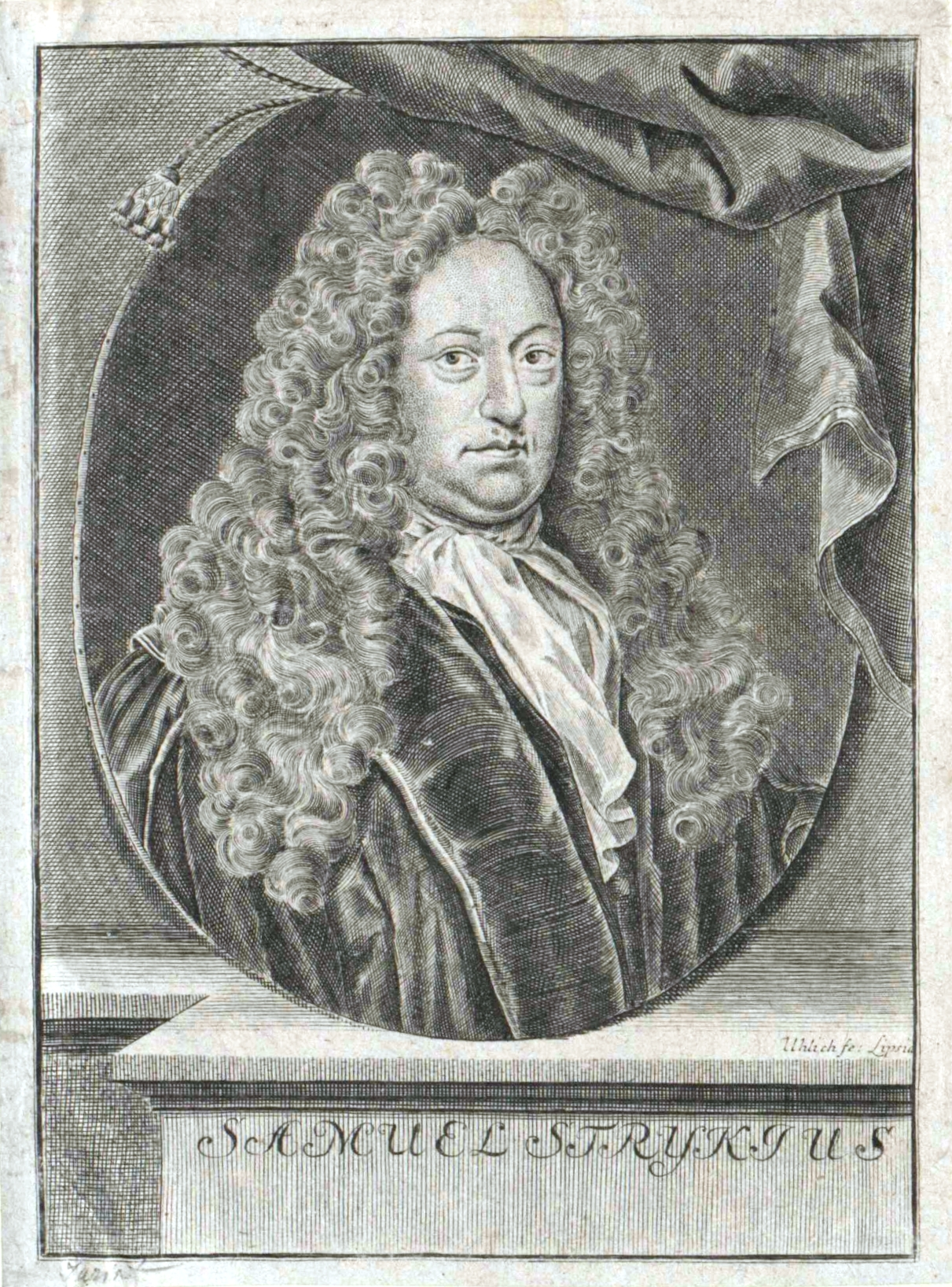 Portrait of Samuel Stryk (1640-1710), German jurist